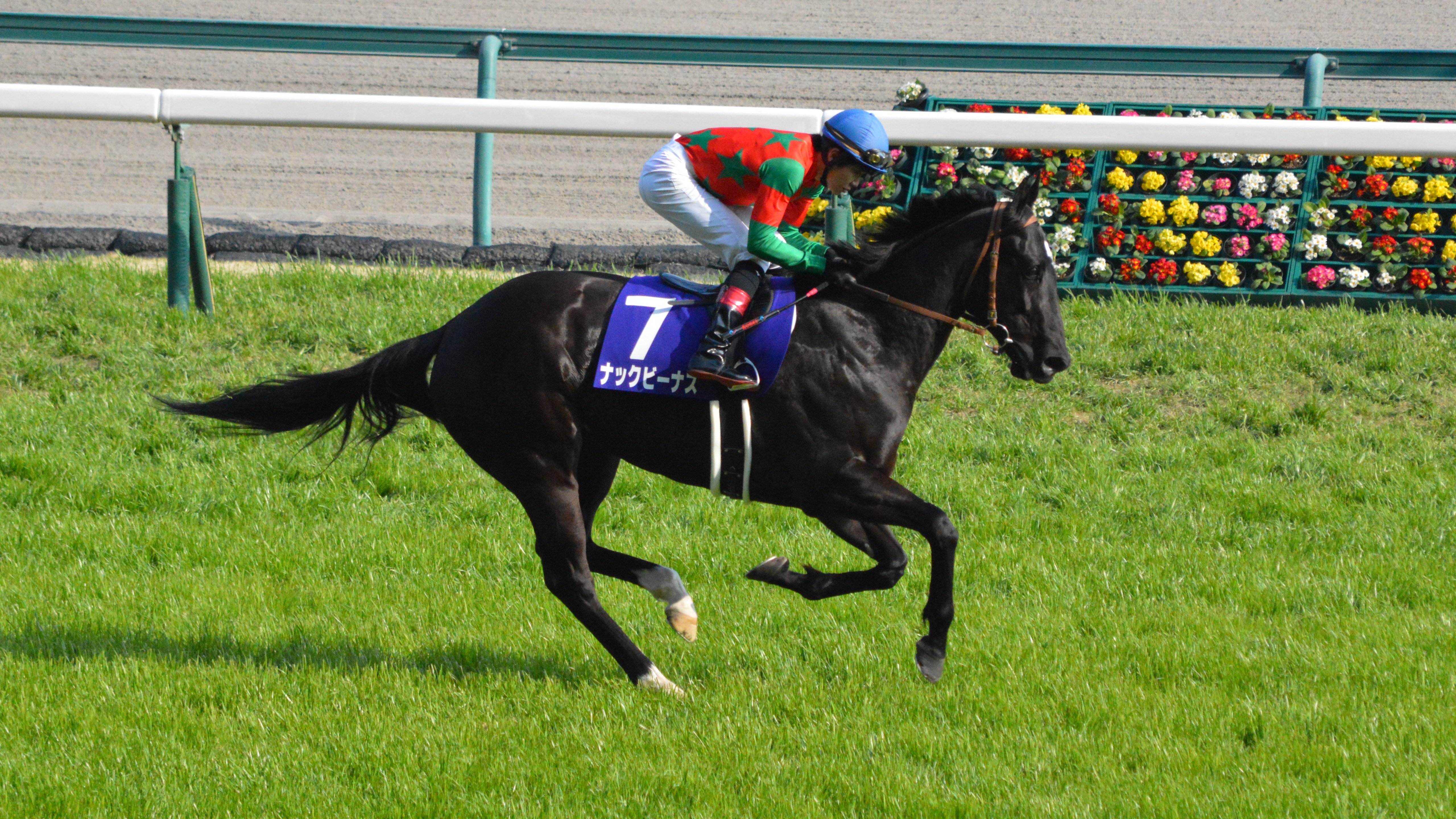 Japanese race horse Nac Venus at Chukyo racecourse. Chukyo (JPN) 25 Mar 2018Takamatsunomiya Kinen (Grade 1) (4yo+) (Turf) 6f Firm RankHorse NameOddsAgeWgtJockeyTrainer1stFine Needle (JPN)9/2H59-0Yuga KawadaYoshitada Takahashi3rdNac Venus (JPN)40/1M58-9Kosei MiuraHiroaki SugiuraOthers are omitted. (18 horses entered in a race.)